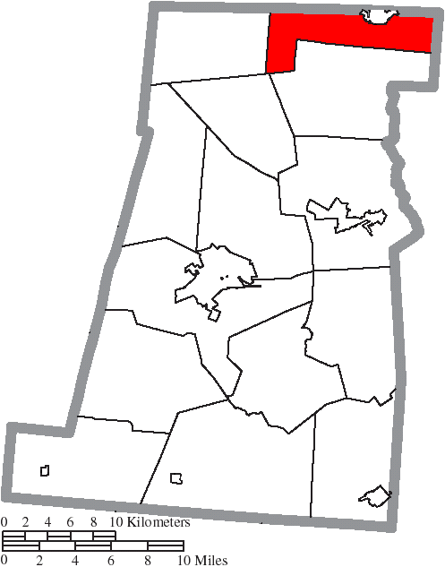 Map of the municipal and township boundaries of Madison County, Ohio, United States, as of the 2000 census, with the location of Darby Township highlighted. Township borders are shown only in unincorporated areas in order to differentiate incorporated and unincorporated areas more clearly.